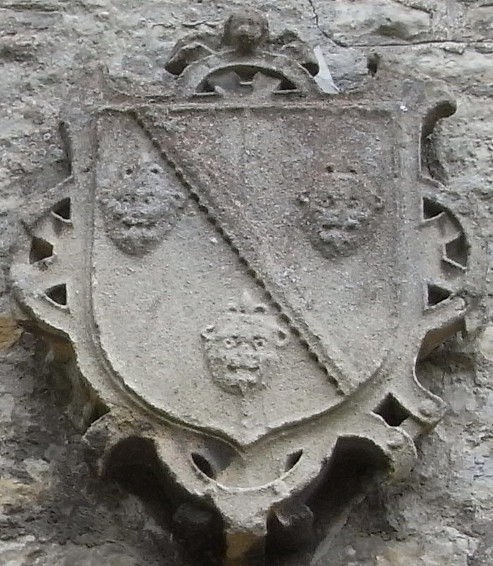 Armourials of Sir Maurice Denys(1516-1563) sculpted on Siston Court, Gloucestershire: "3 leopards' faces jessant-de-lys over all a bend engrailled"